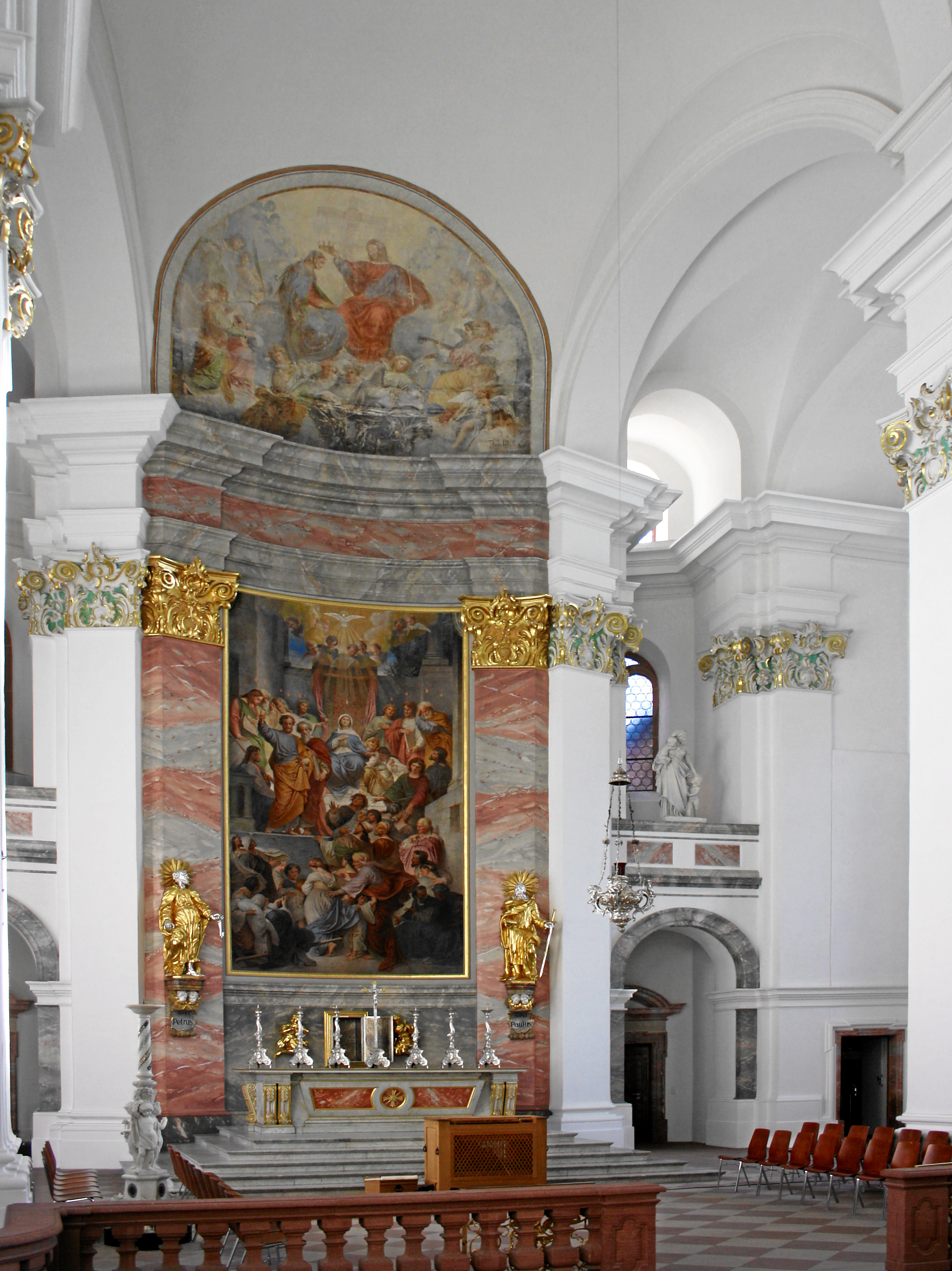 Heidelberg, Germany. Roman-catholich church Holy Spirit and St. Ignatius, former church of the Jesuit order. Main altar.